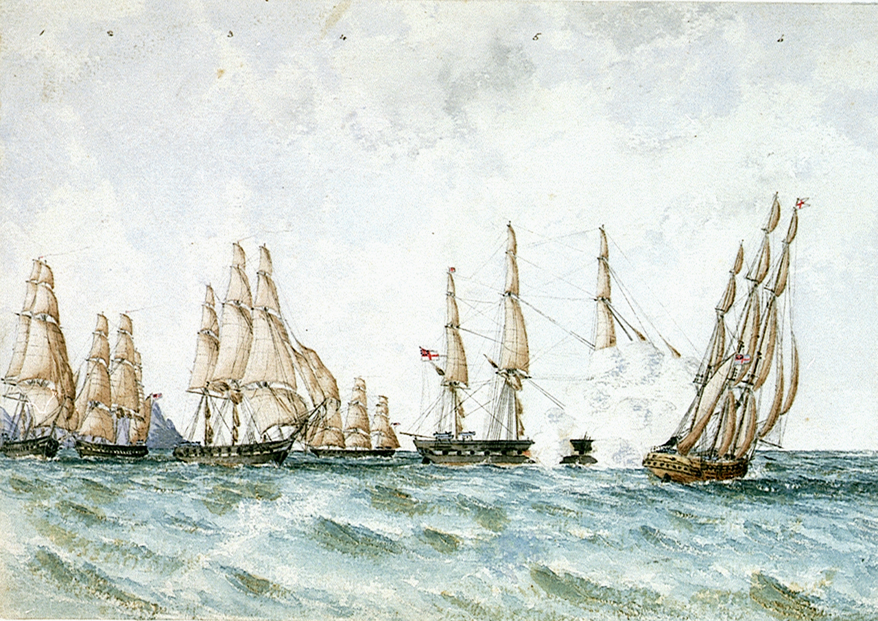 Departure of the Flying Squadron from Simon's Bay H.M.S. Liverpool saluting Sir Philip Wodehouse on board H.M.S. Rattlesnake 1860 Drawing